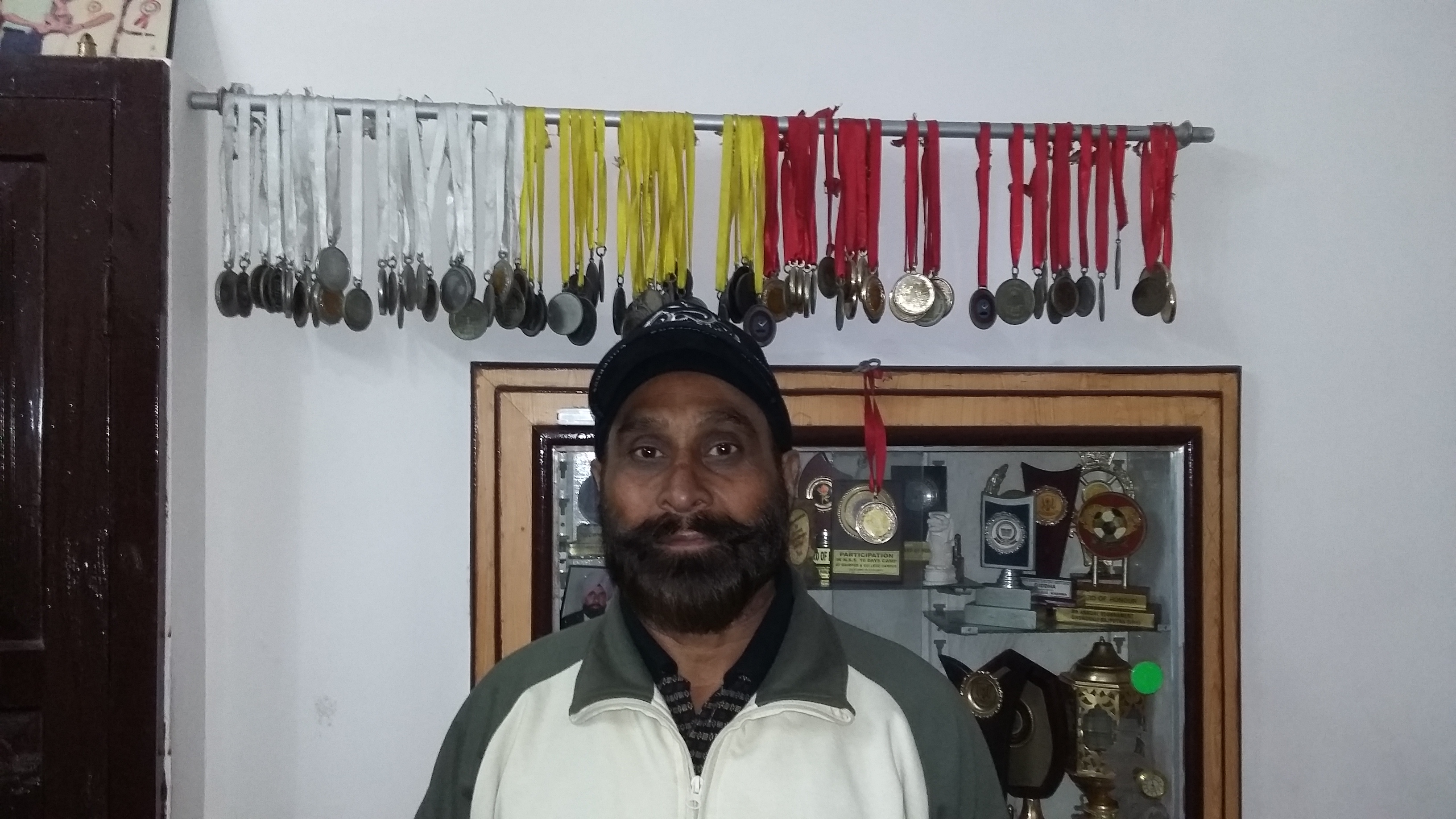 Bhupinder singh coach Gymnastics ਪੰਜਾਬੀ: ਭੁਪਿੰਦਰ ਸਿੰਘ